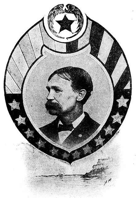 Landsman Michael C. Horgan, a.k.a. Martin Howard, United States Navy, was awarded the Medal of Honor for his actions aboard USS Tacony during the capture of Plymouth, North Carolina, on 31 October 1864 in the American Civil War.